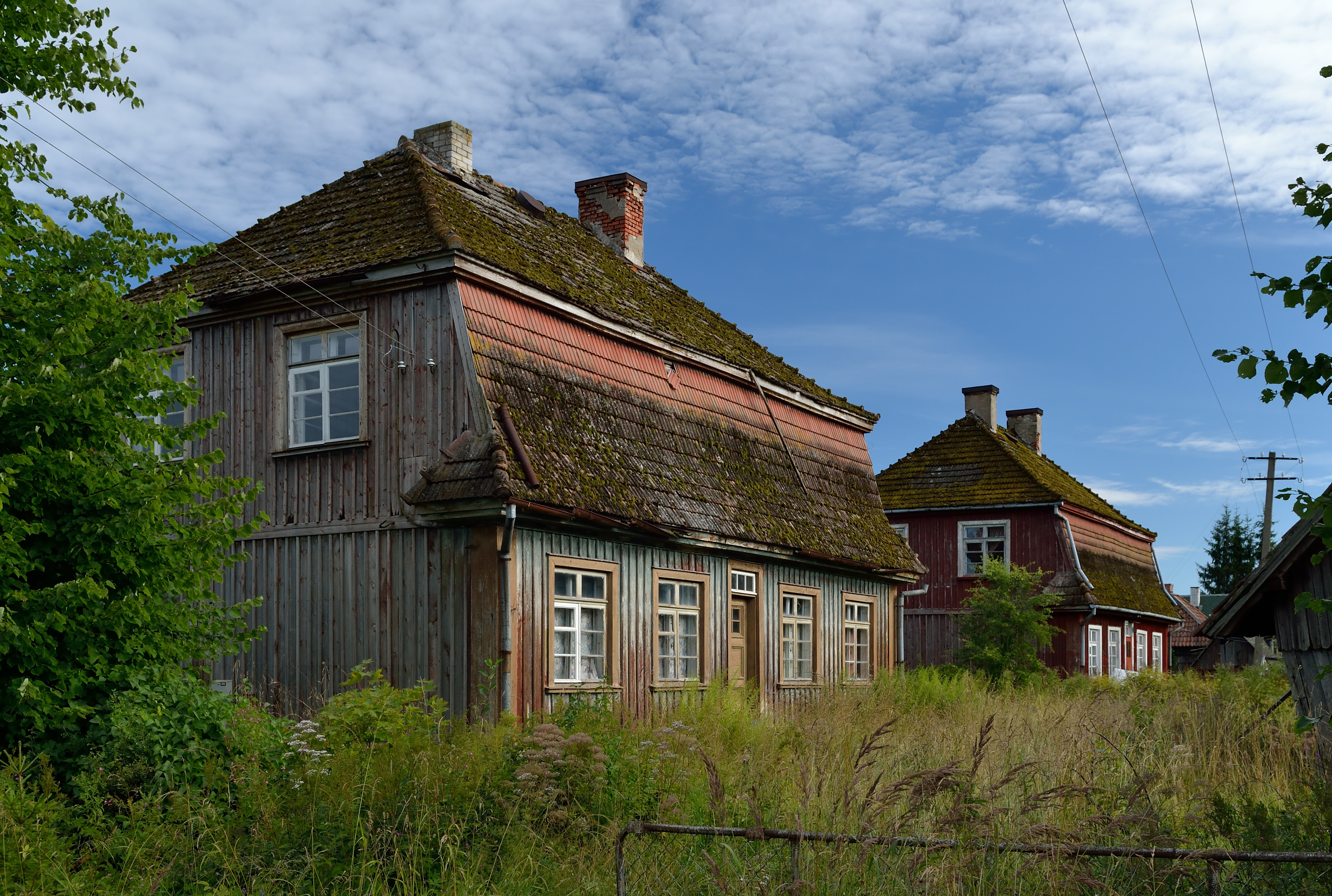 Tori station (Estonia) houses